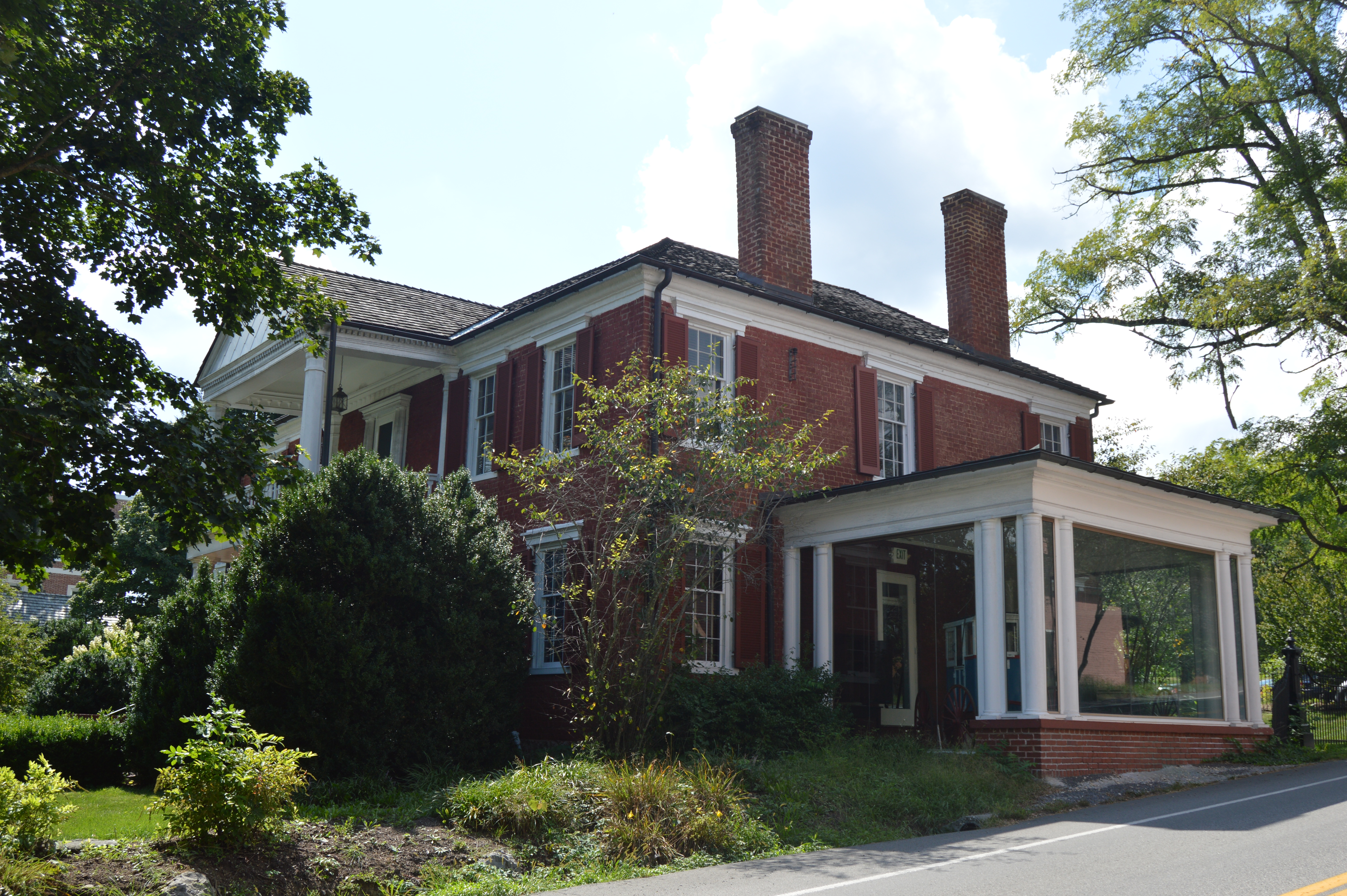 Front and northern side of the John A. North House, located on the southern side of Washington Street (U.S. Route 60) west of the Church Street intersection in Lewisburg, West Virginia, United States. Built in 1820, it is listed on the National Register of Historic Places.